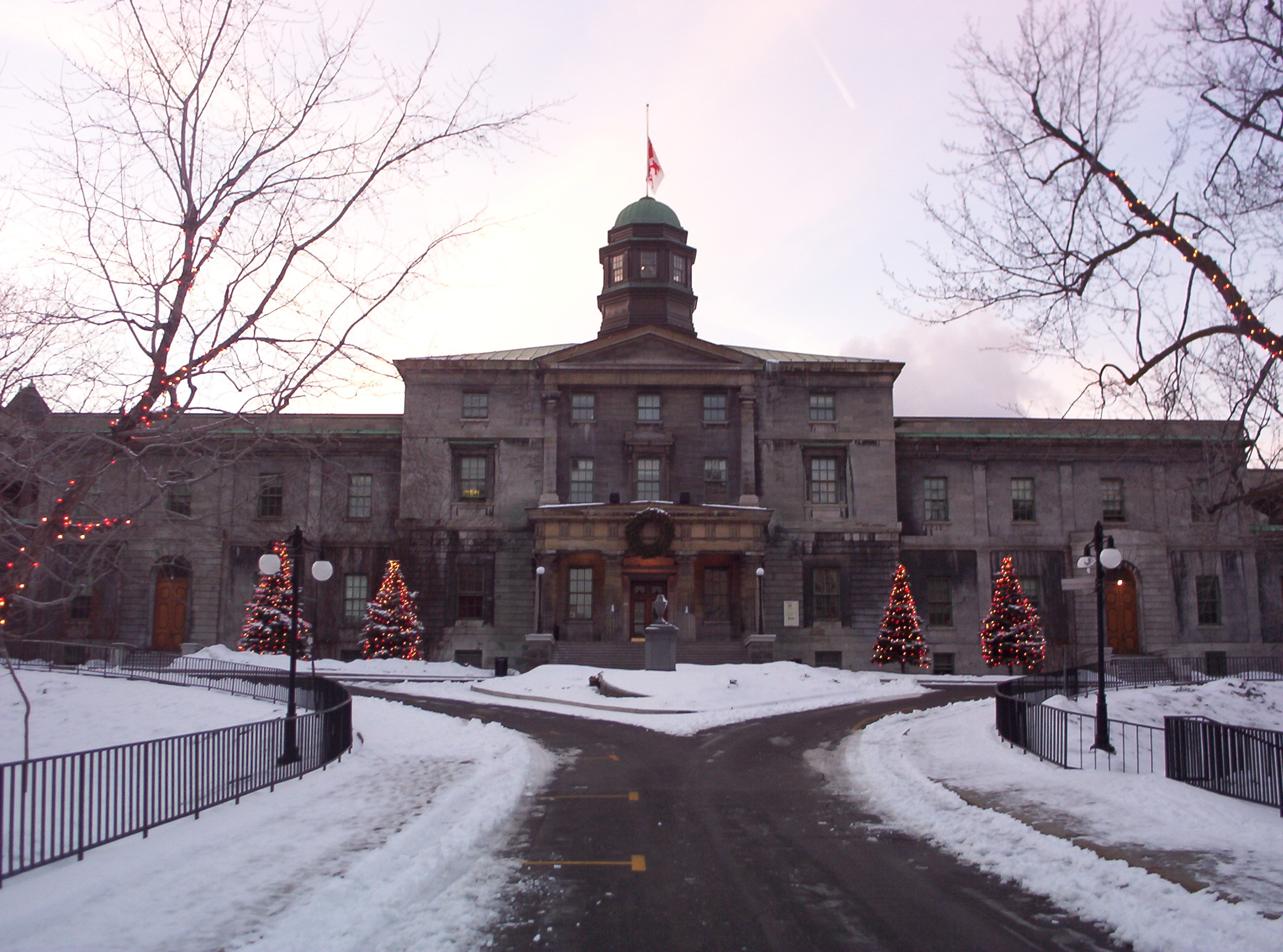 Summary: View of the arts building of McGill University in Montreal, Québec Author: Colocho Date: January 22nd, 2006